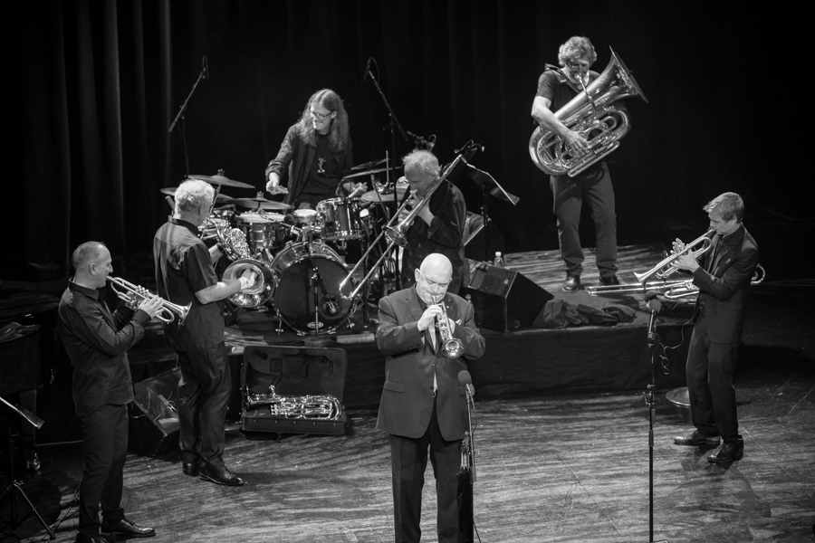 James Morrisson and Brazz Brothers at Chat Noir. The concert was part of Oslo Jazzfestival and took place on 19. August 2017 in Oslo. Lineup: James Morrisson (trumpet), Helge Førde (trombone), Jan Magne Førde (trumpet), Runar Tafjord (horn), Stein Erik Tafjord (tuba), Kenneth Ekornes (drums) and Kåre Nymark jr (trumpet).